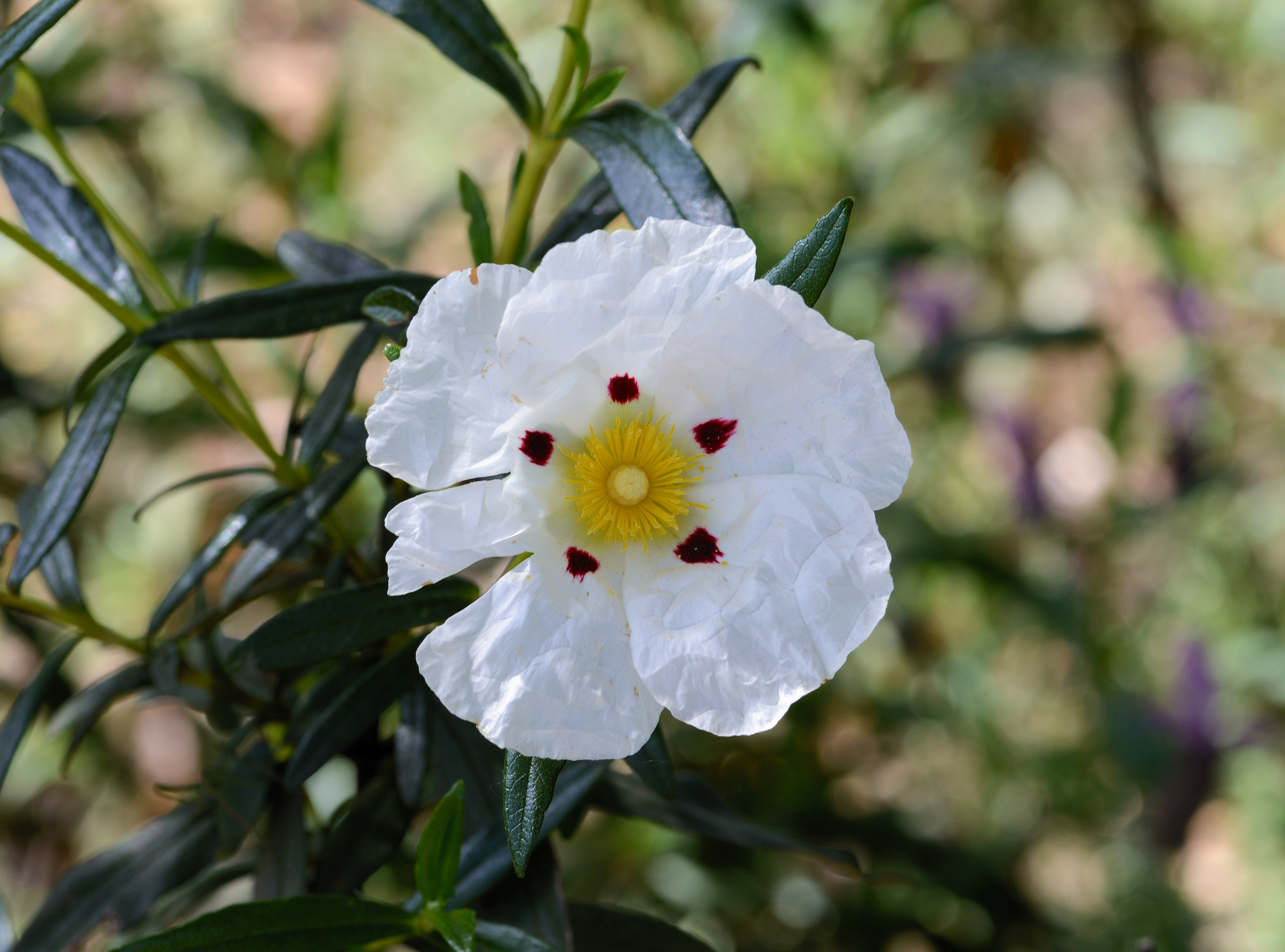 Flower of a Cistus ladanifer